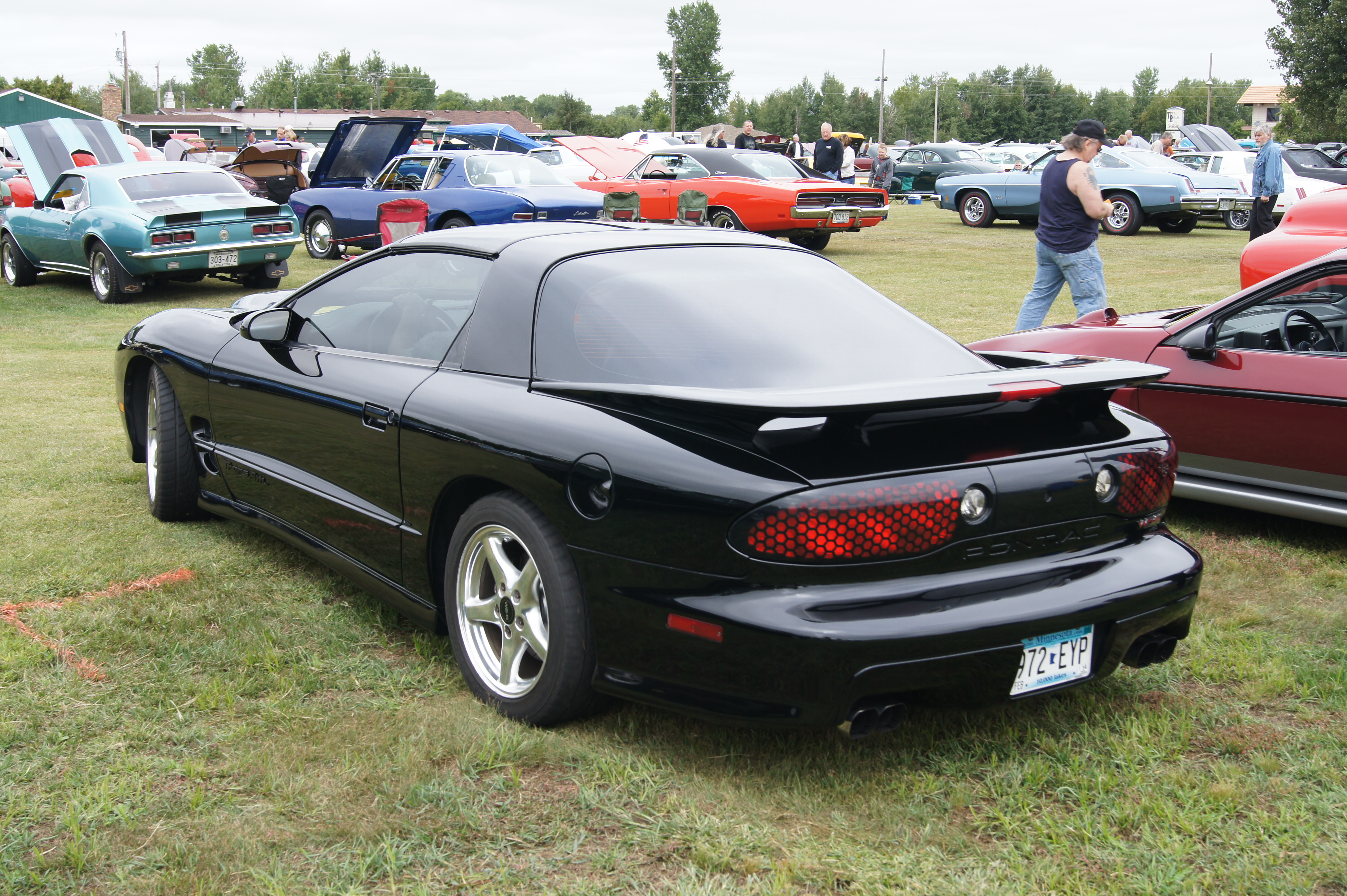 North Star Chapter Studebaker Drivers Club 13th Annual Labor Day Car Show September 2, 2013 Blacksmith Lounge Hugo, MN More Car Pictures